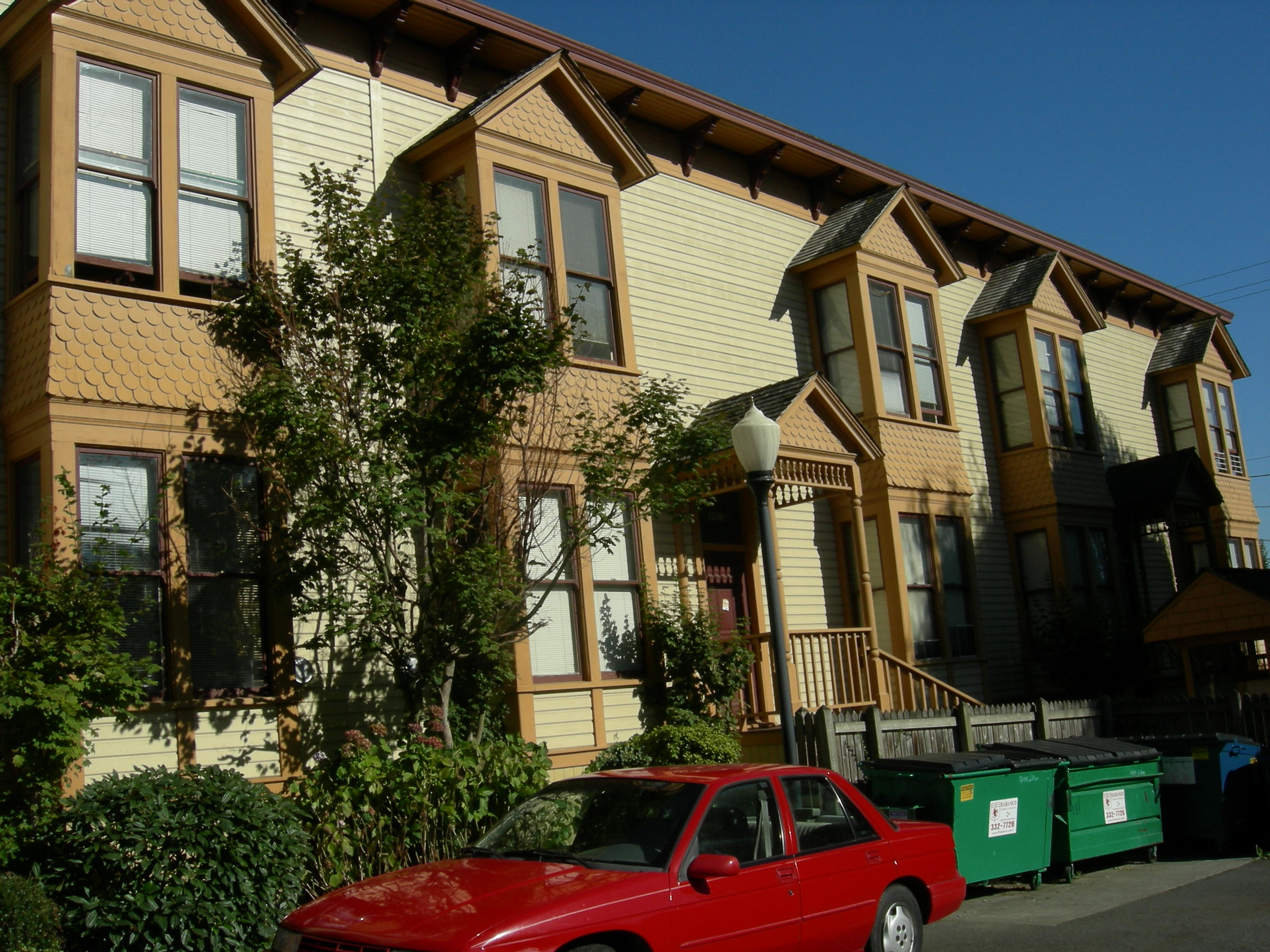 The Victorian Row Apartments, 1234 South King Street, on the border of the International and Central Districts, Seattle, Washington, USA. Built in 1891 on a nearby lot, moved to its present location in 1909 during the Jackson Street regrade, and rehabilitated 1992–1993, Victorian Row constitutes Seattle's only remaining structurally unaltered 19th-century apartment building, and is a Seattle City landmark, and listed on the National Register of Historic Places, ID #90001864. There is a detailed article on the building and the 1992–1993 rehabilitation at